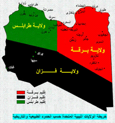 Libya